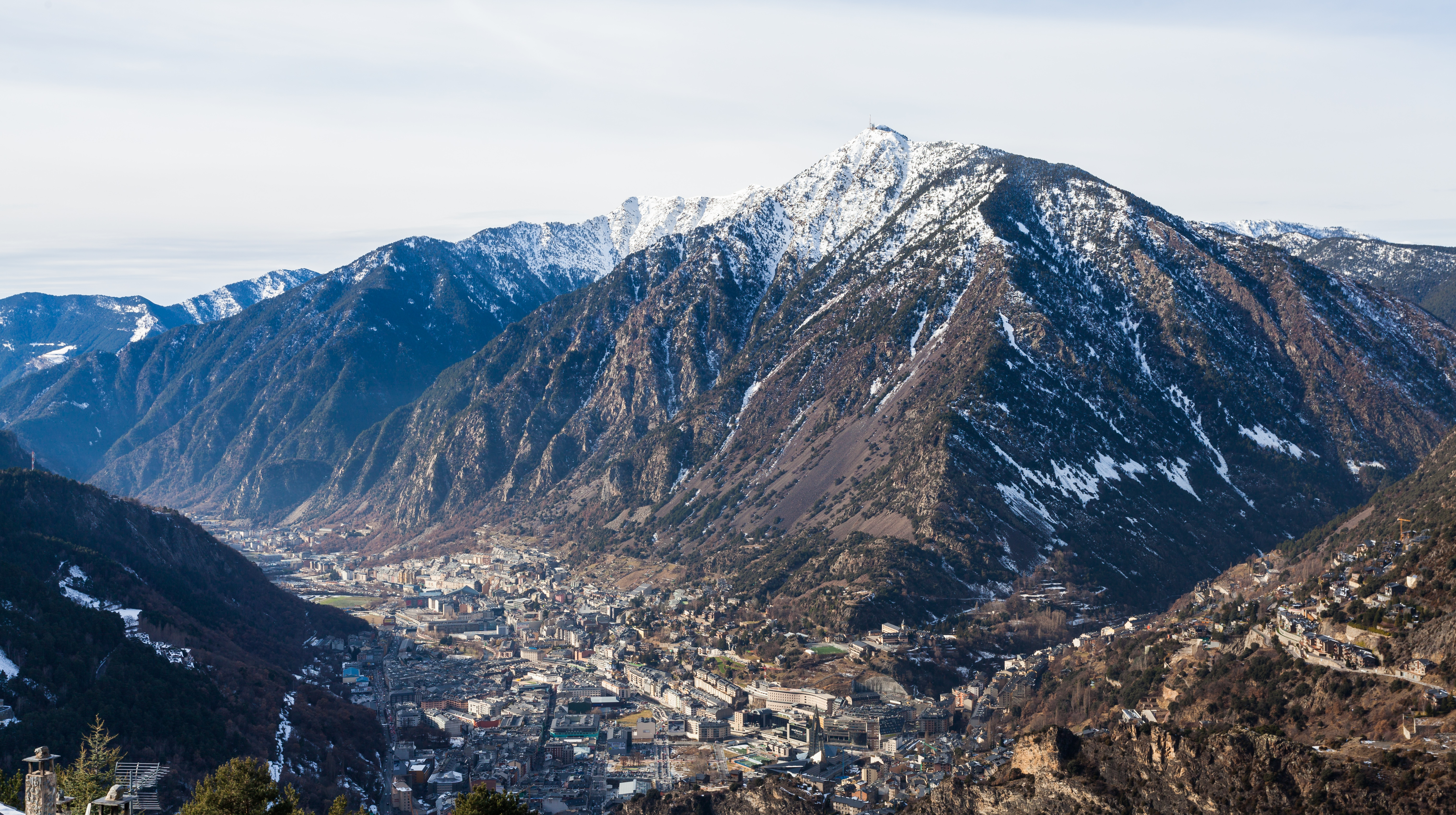 View of Andorra la Vella, Andorra